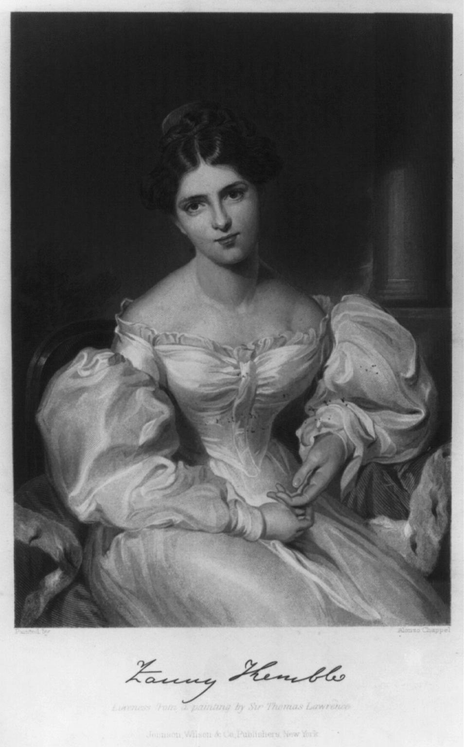 Kemble, Frances Anne, 1809-1893, 3/4 lgth., seated, facing slightly left. Actress.